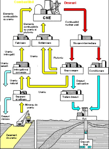 Diagram for nuclear fuel cycle